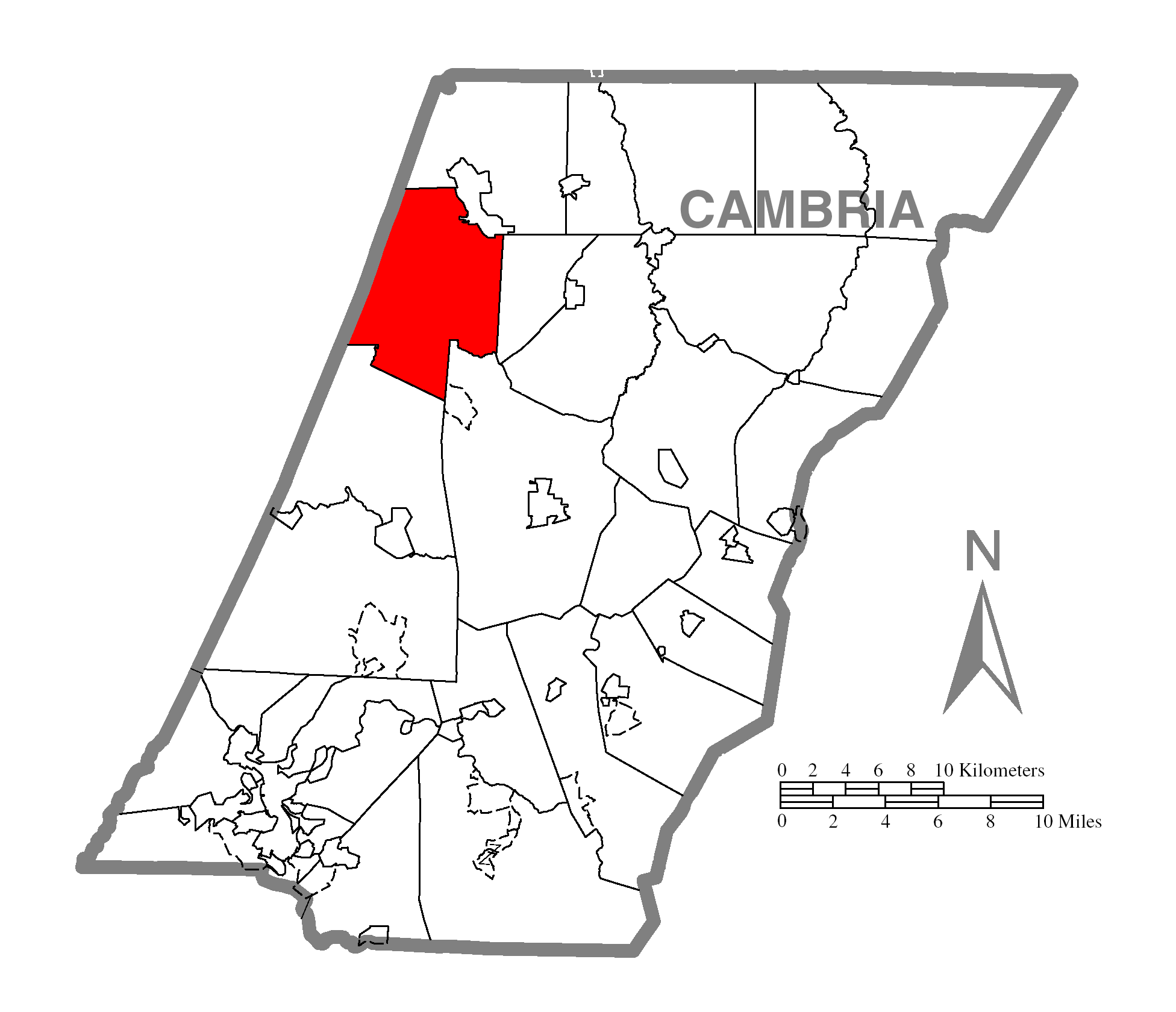 A map of Cambria County showing Barr Township, Pennsylvania (alternate) highlighted on the map.